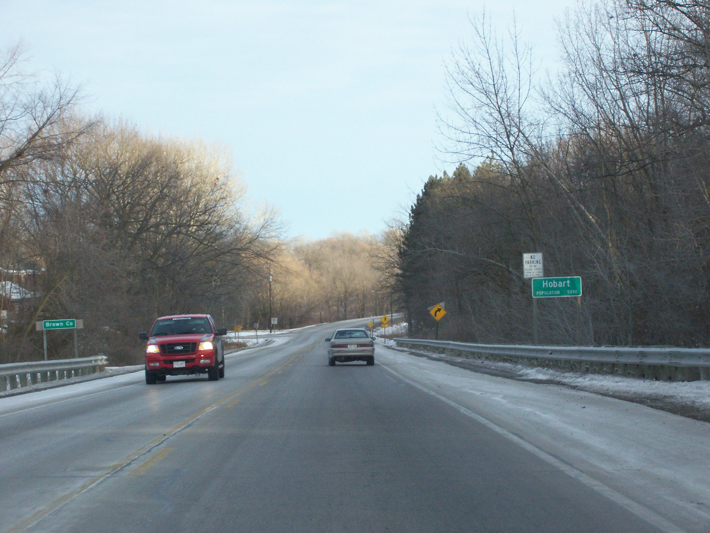 The sign for Hobart, Wisconsin, USA. Taken February 11, 2007 by myself.